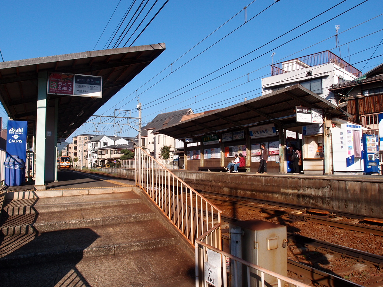 Chayama Station of Eizan Electric Railway in Kyoto.